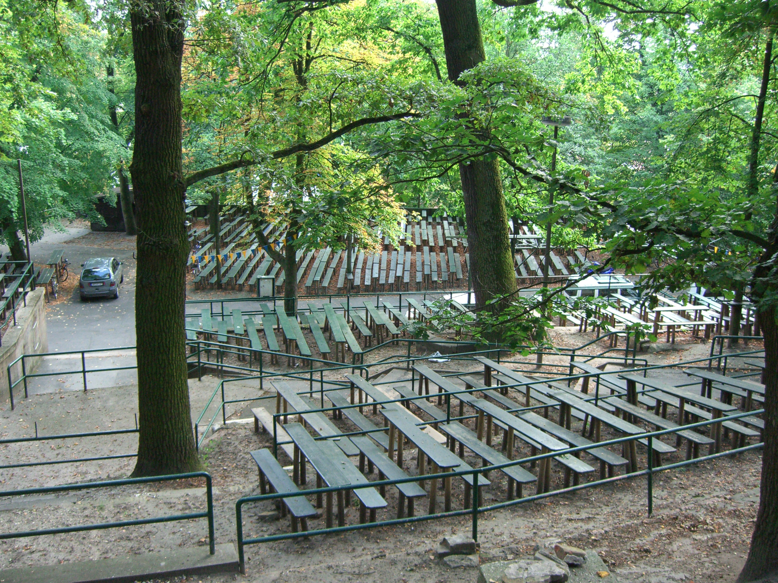 Some ale benchs (out of the season) at the compound of the Bergkirchweih at the Burgberg in Erlangen, Germany.